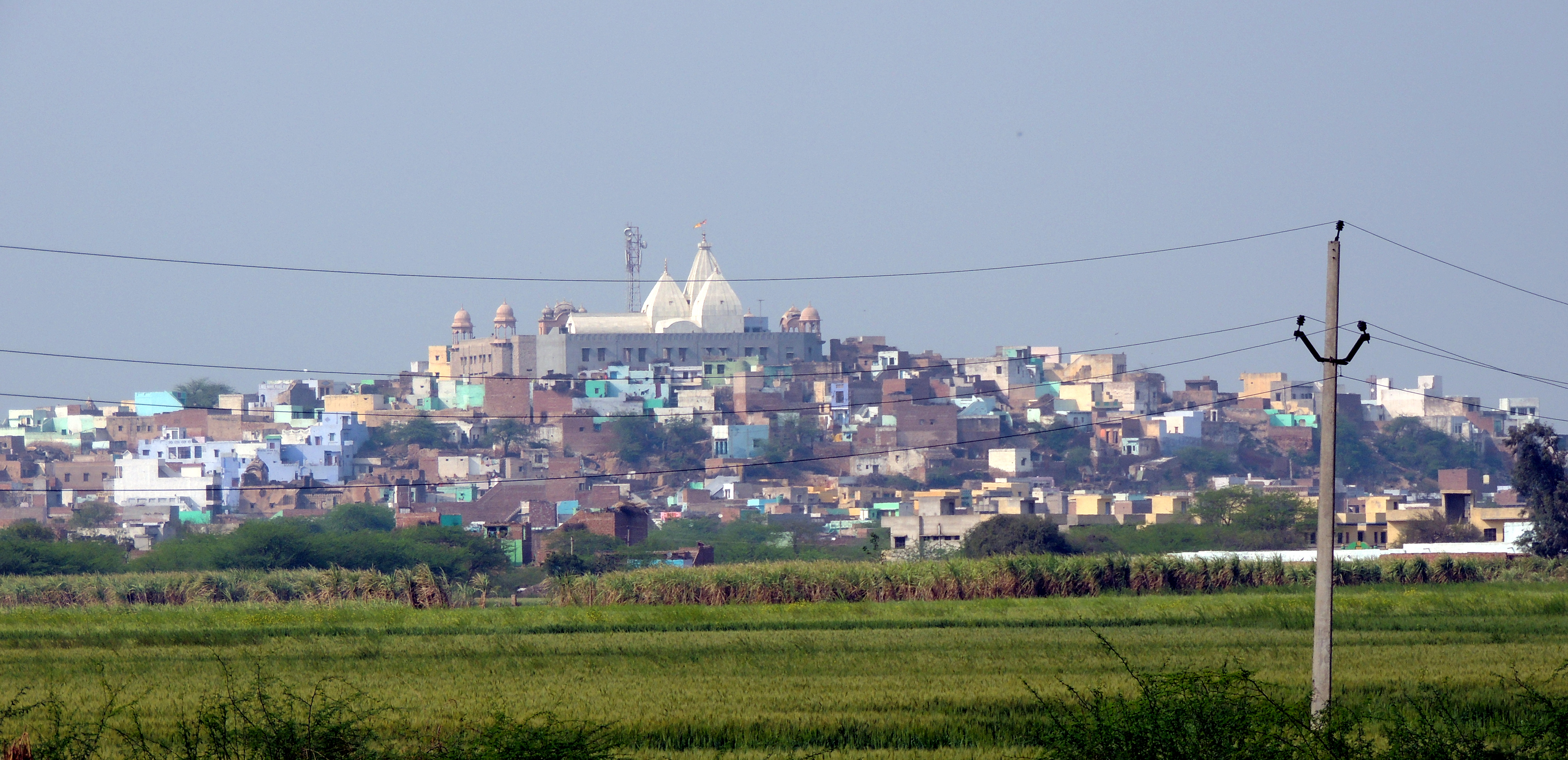 नंदगाँव